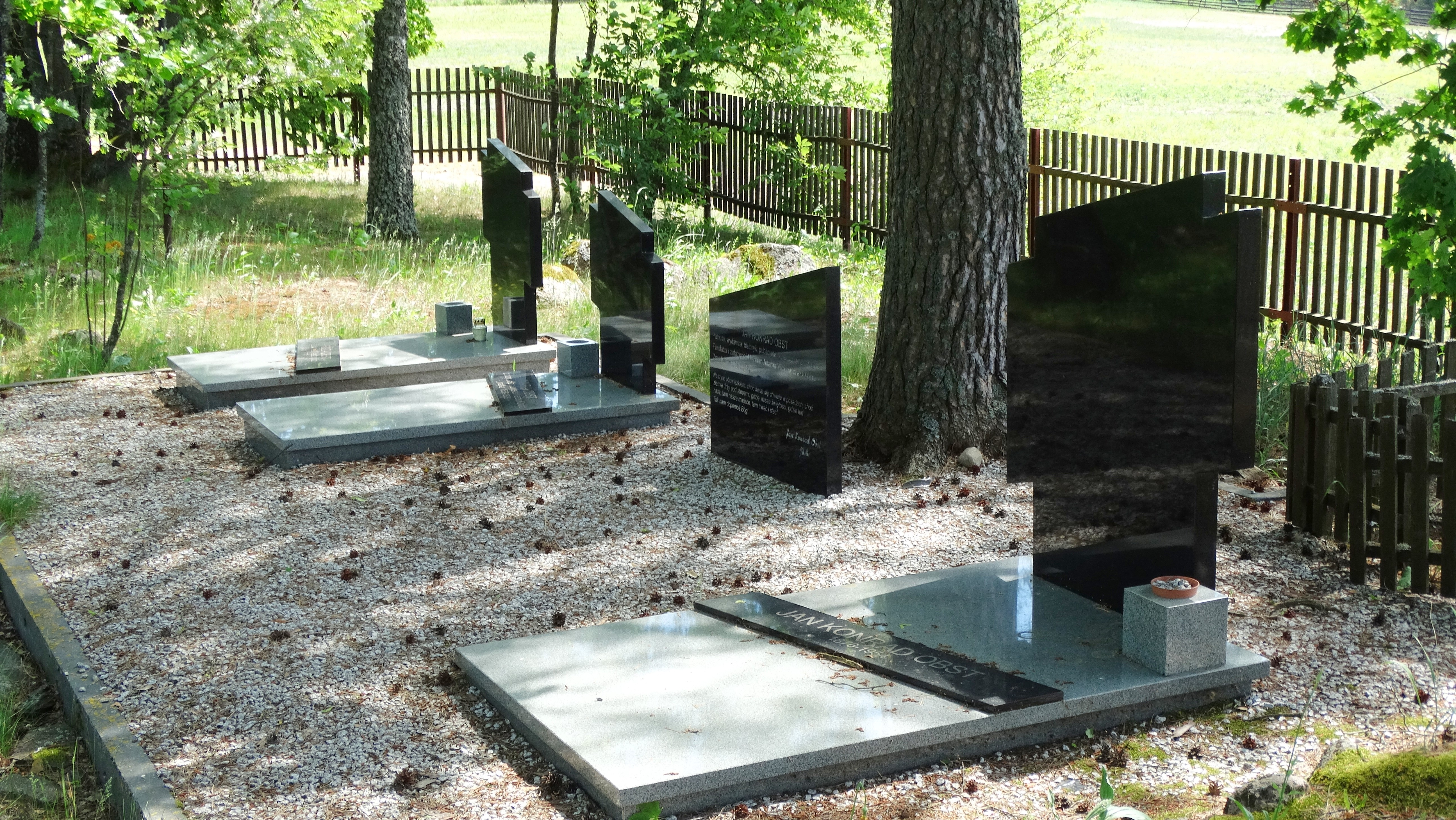 Jurzdika, Jan Konrad Obst family tombs, Vilnius District, Lithuania